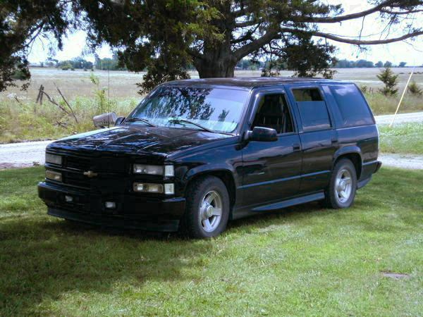 Picture of Leroy Kastler's 2000 Chevy Tahoe Limited